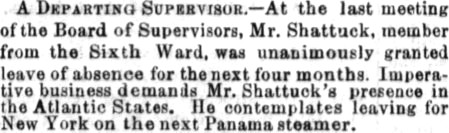 Item, "A Departing Supervisor", announcing imminent departure of San Francisco Supervisor David Dustin Shattuck "for the Atlantic States". At least one purpose of the trip was the deliver of the skull and tamping iron of Phineas Gage to Gage's physician John Martyn Harlow, in Woburn, Massachusetts. (See Malcolm Macmillan, An Odd Kind of Fame: Stories of Phineas Gage (2000), p. 111.)